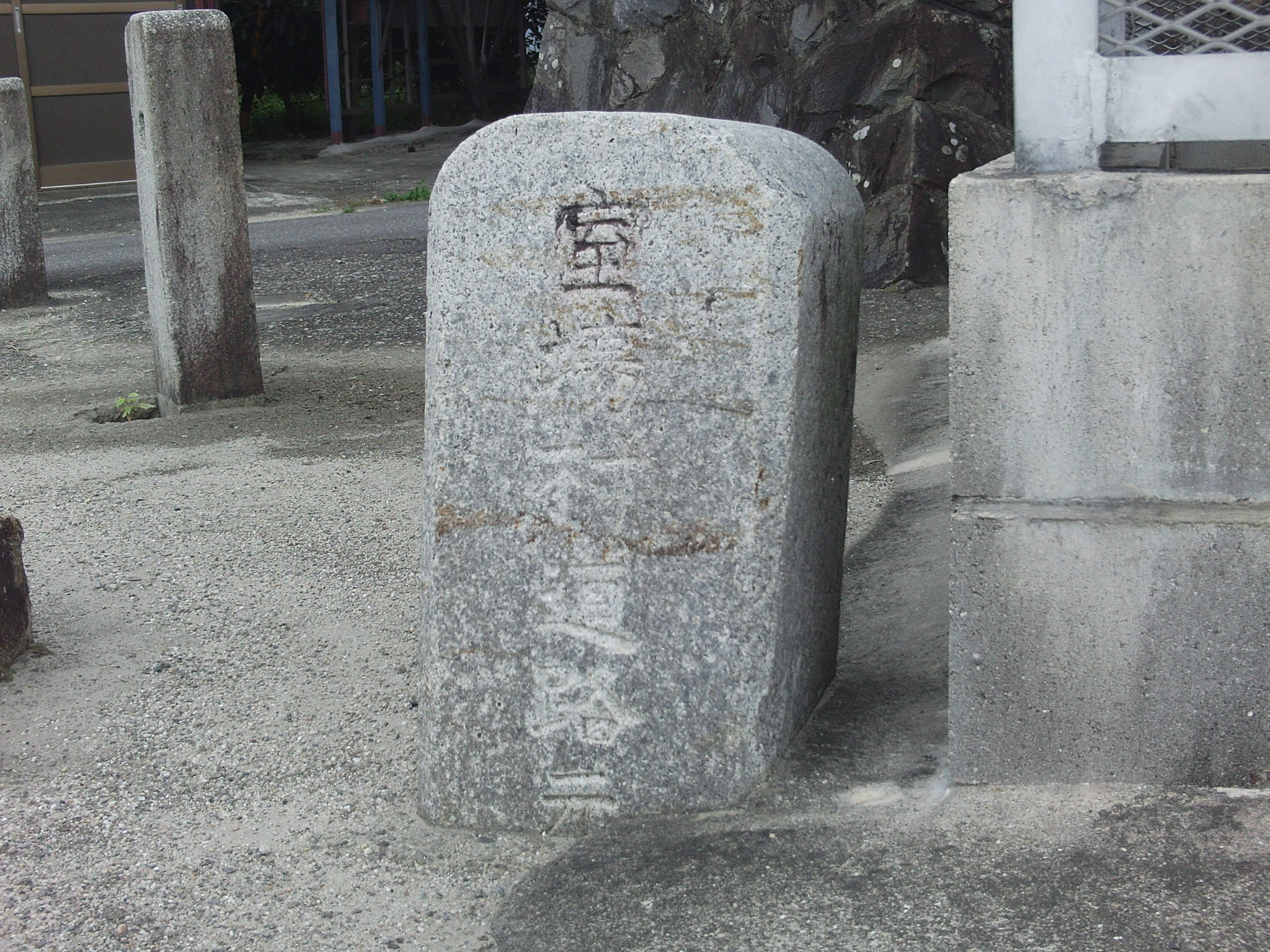 Kilometre zero of Muroba village. (Muroba village, Hadzu-gun, Aichi.)